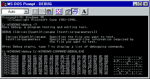 Microsoft Windows 95 Version 4.00.1111 debug command